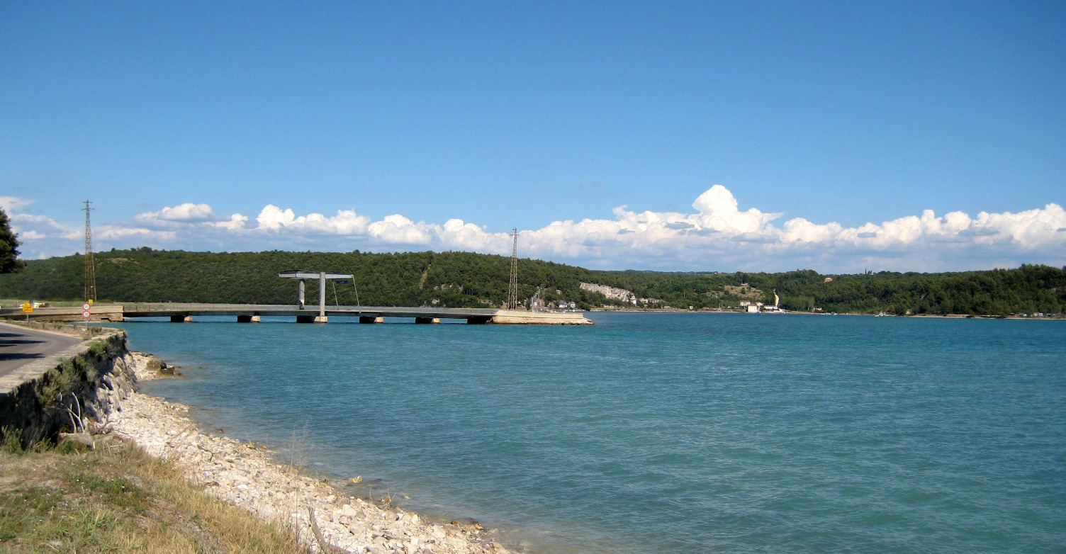 Mirna river, Croatia